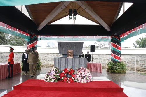 This is where the first president of Kenya Mzee Jomo kenyatta was buried within the Kenyan parliaments grounds.